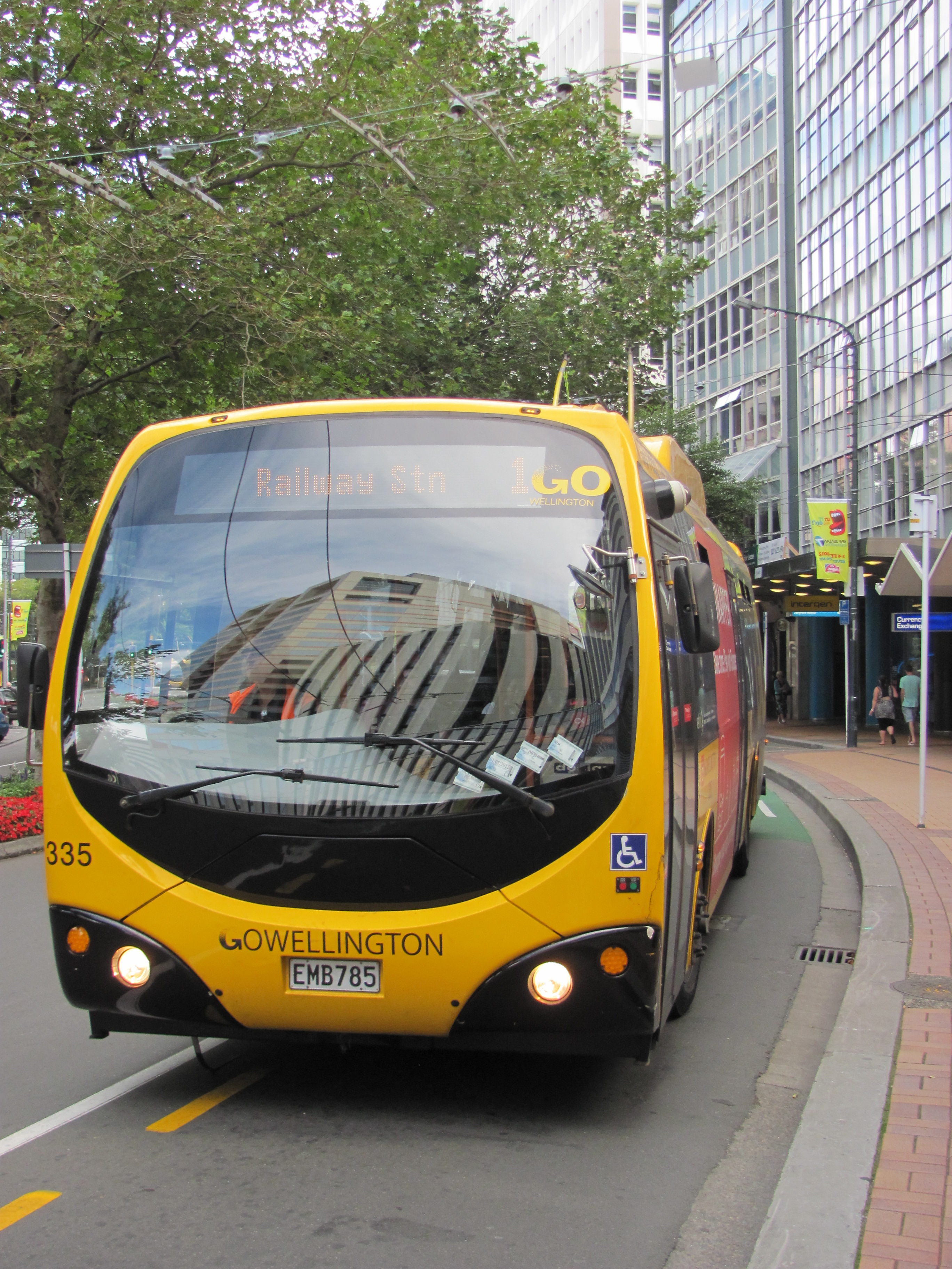 Trolley bus Wellington, NZ